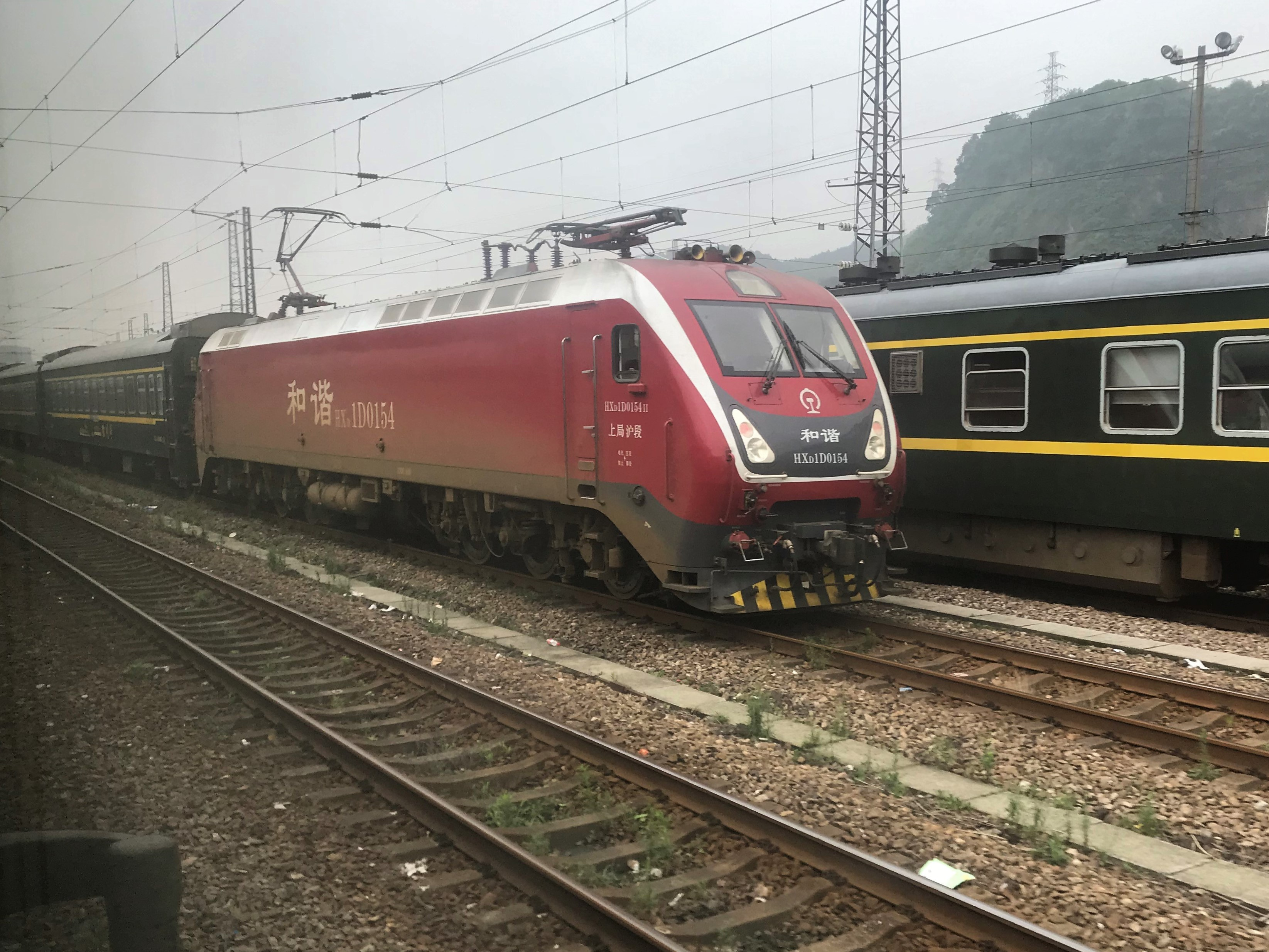 Nice to see you again